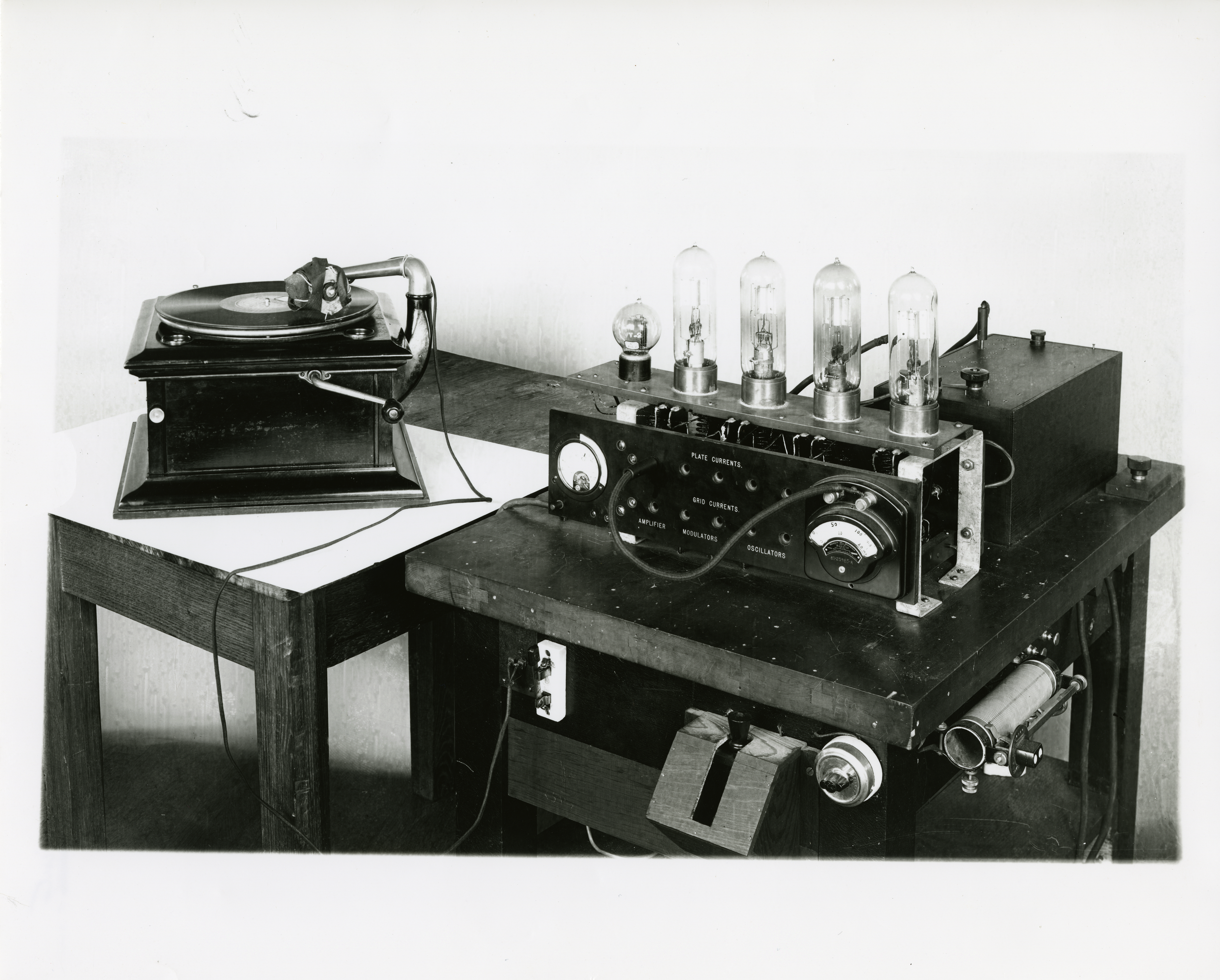 During the spring of 1920 the Radio Section broadcasted music over station WWV in advance of the scheduled commerical broadcasts later in the year. A Victrola phonograph was the source of the music, with pickup by a microphone using a telephone transmitter fitted with a "morning glory" horn. US Army Signal Corps radio equipment served as the transmitter.